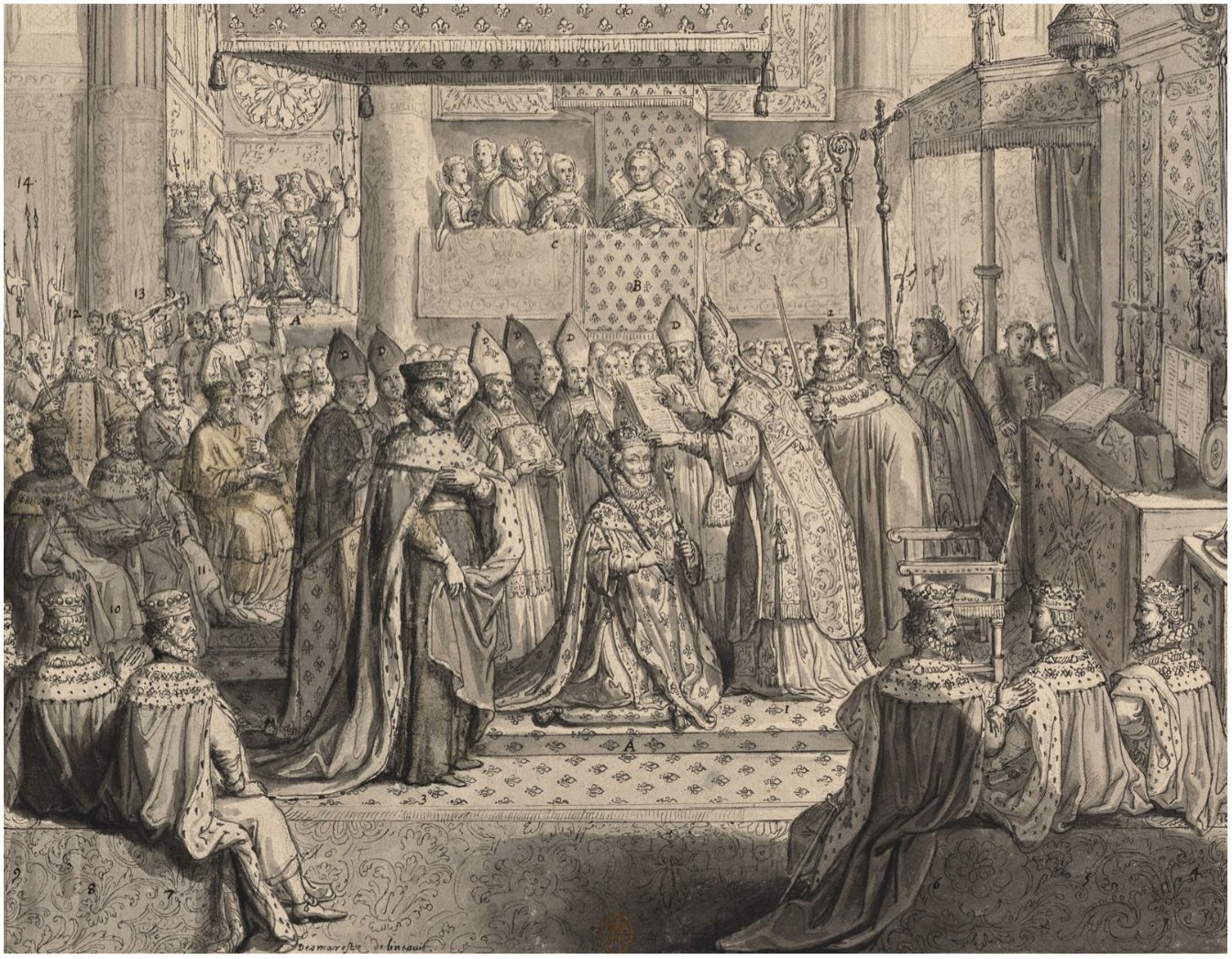 Coronation of Henry IV of France. (Bibliothèque nationale de France)